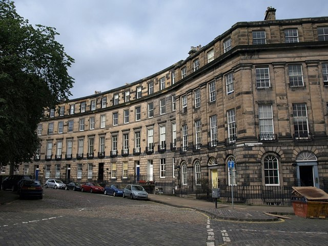 Ainslie Place, Edinburgh This oval-shaped place forms part of the Moray Estate, and is the central of three contrastingly shaped such features, linked by Great Stuart Street (right).